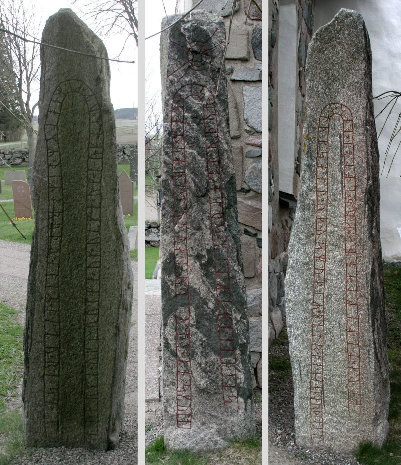 Husby-Sjuhundra kyrka, Norrtälje kommun, Diocese of Uppsala, Sweden. Runestone U539, composite of all three sides